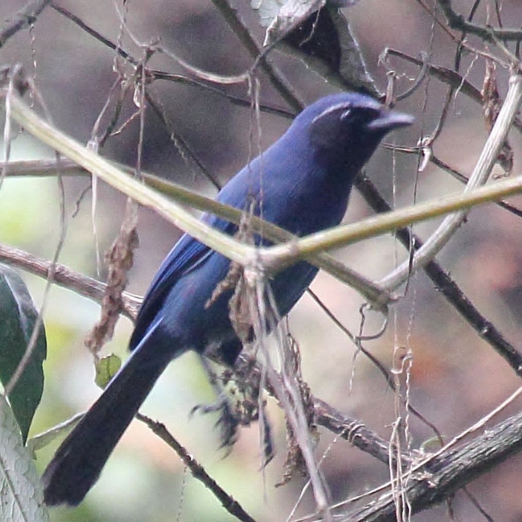 Black-throated Jay (Cyanolyca pumilo)